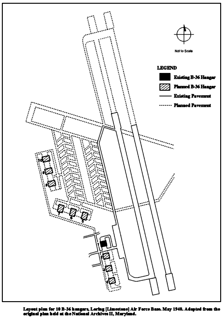 Original plans for Loring AFB. Edited by Global Security to present form (Adapted from a plan held at the National Archives II, Maryland).